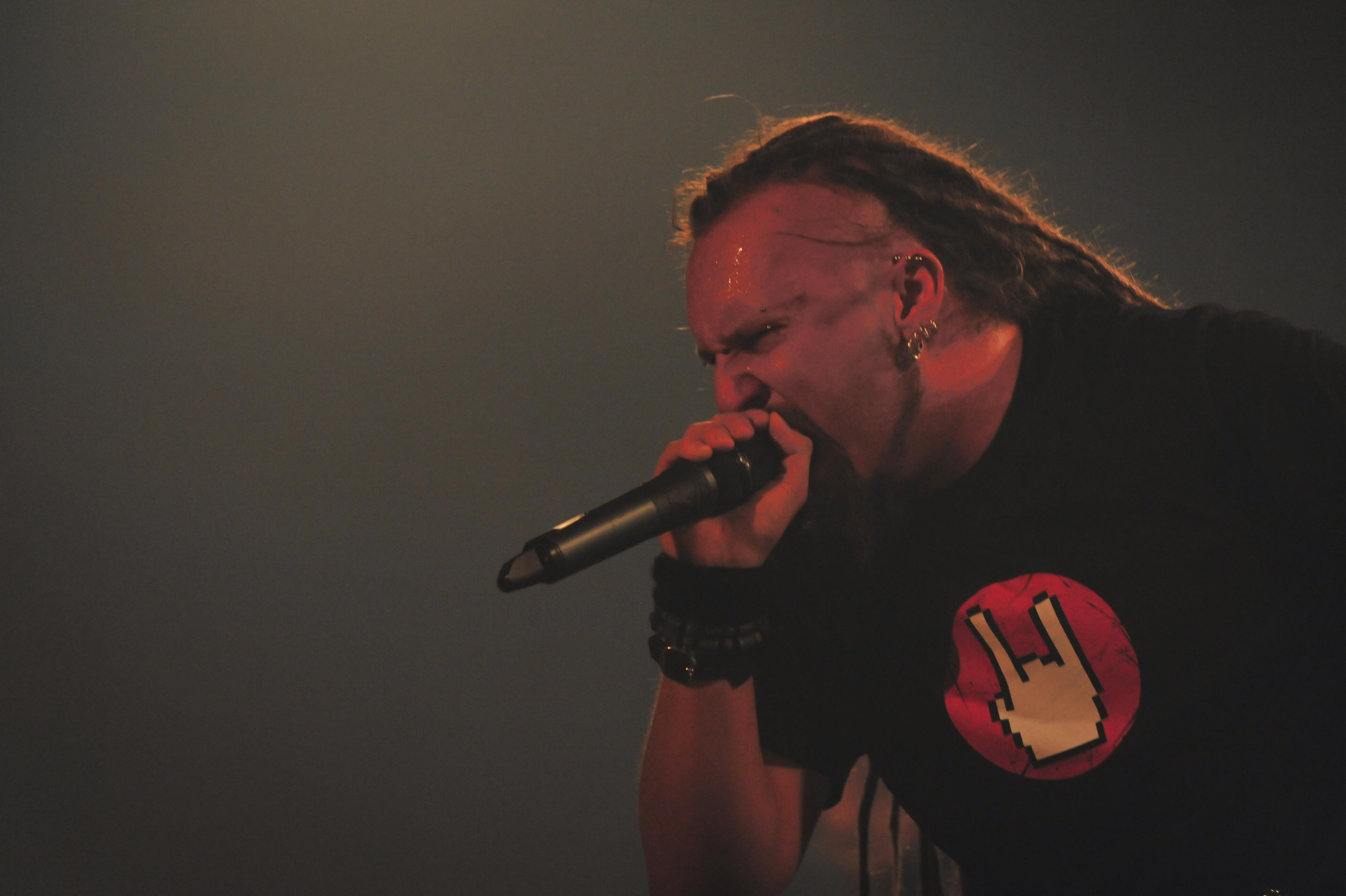 September 23 2011, Grand Vennes Lausanne, Switzerland. Was there with Mr. Blueandwhitehoops, who unfortunately was sick...